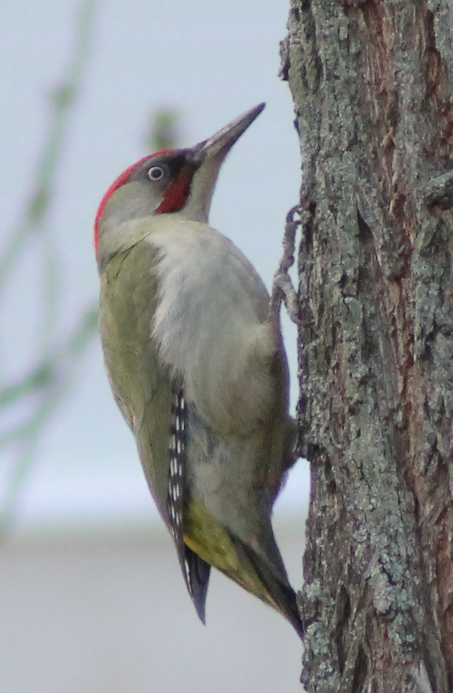 A male Iberian Woodpecker (Picus sharpei) in Madrid (Spain).